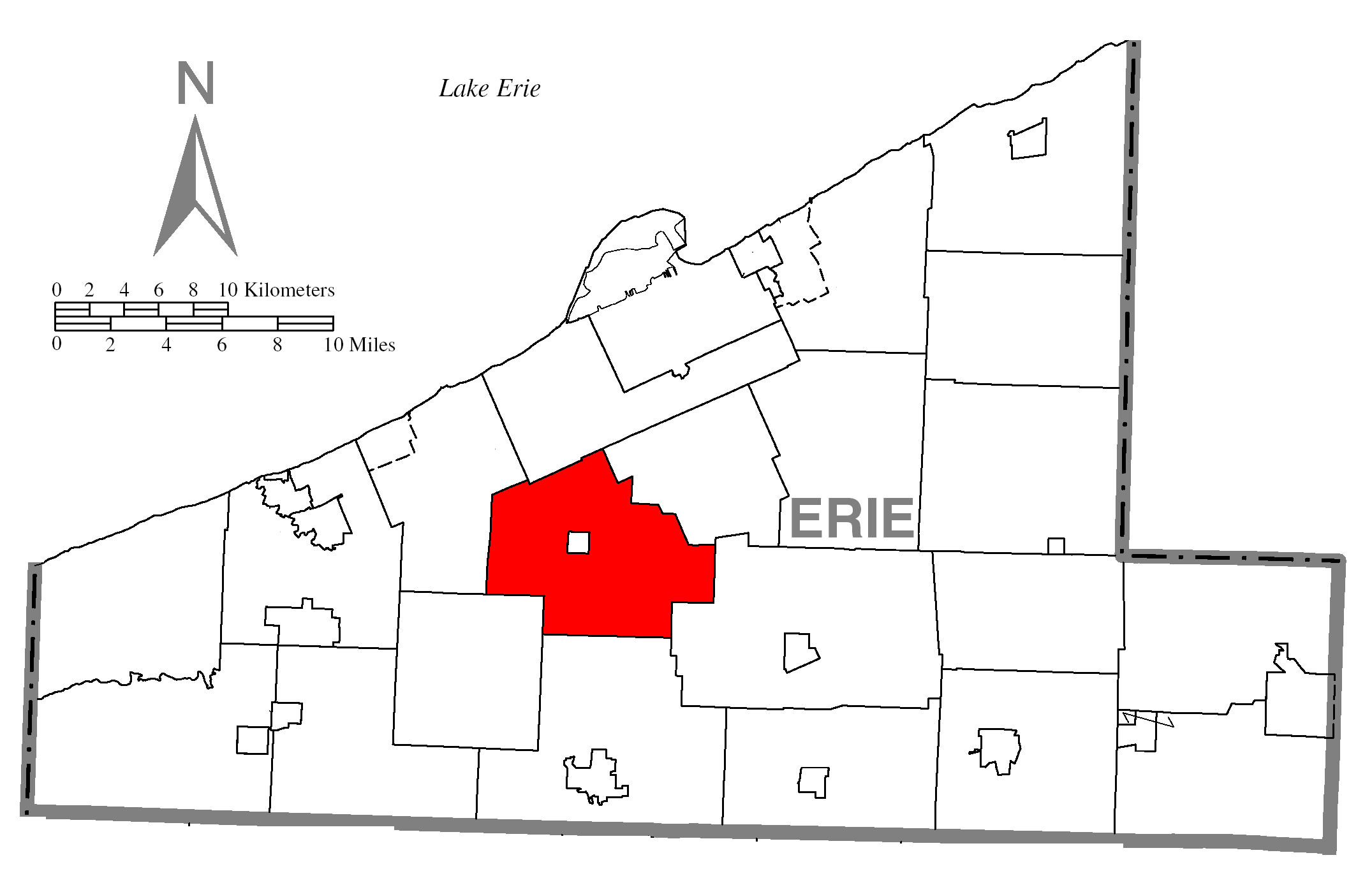 A map of Erie County showing McKean Township, Pennsylvania (alternate) highlighted on the map.